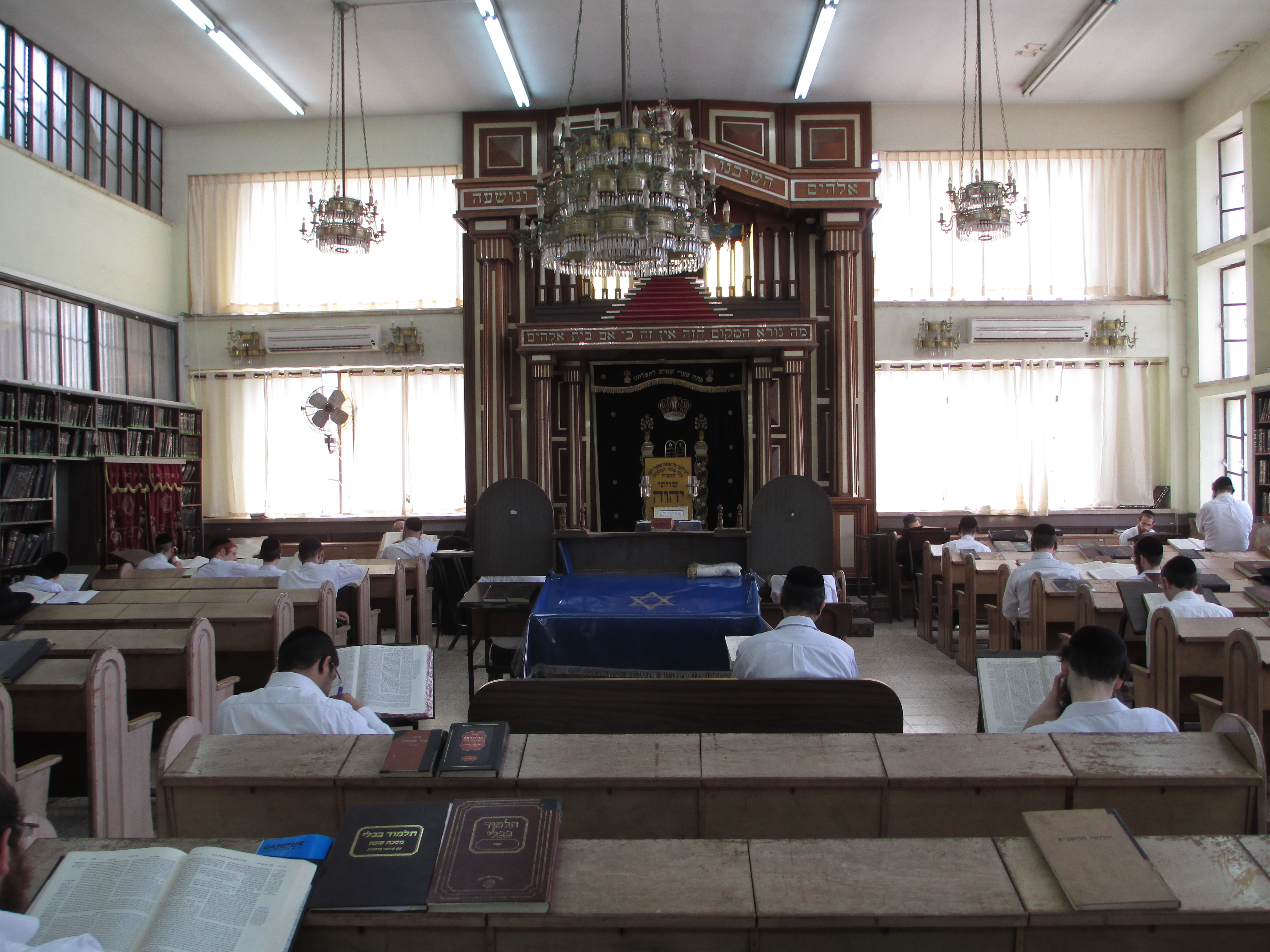 lederman synagogue בית המדרש בבית הכנסת לדרמן